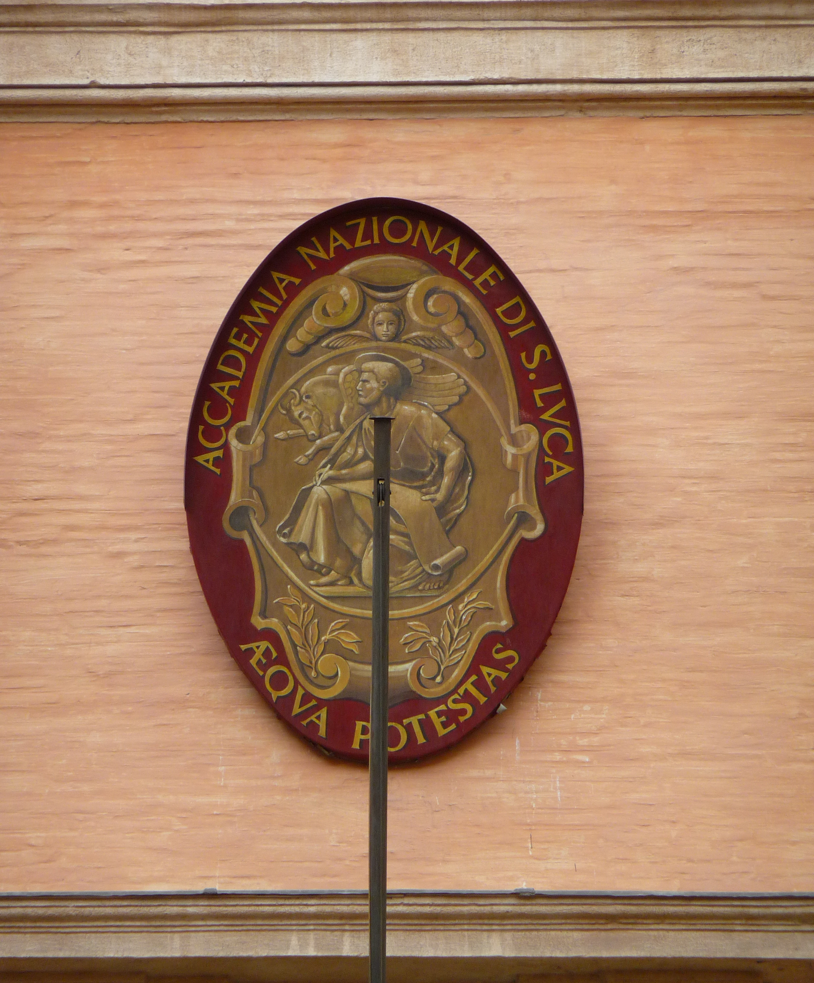 Accademia di San Luca in Rome, coat of arms